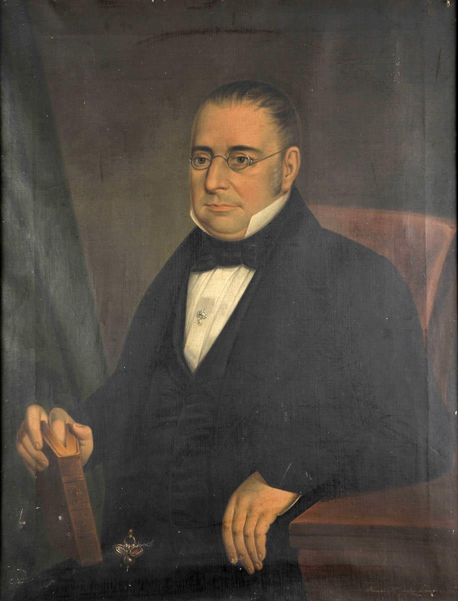 Portrait of António Ribeiro da Costa (1786-1851), Mayor of Vila Nova de Gaia (1835) and ombudsman for the Santa Casa da Misericórdia do Porto (1840-1841).